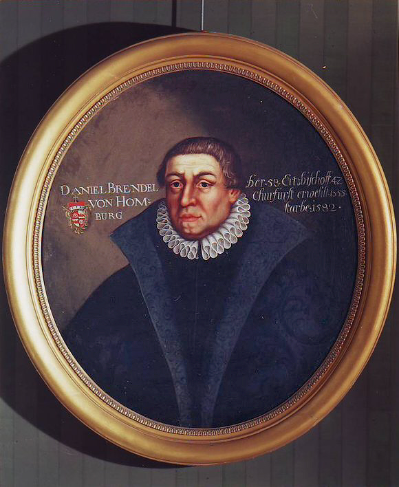 Daniel Brendel of Homburg